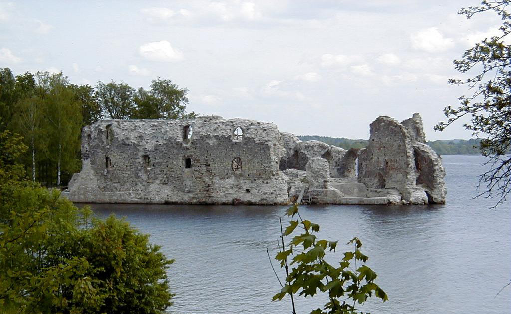 Koknese Castle ruins